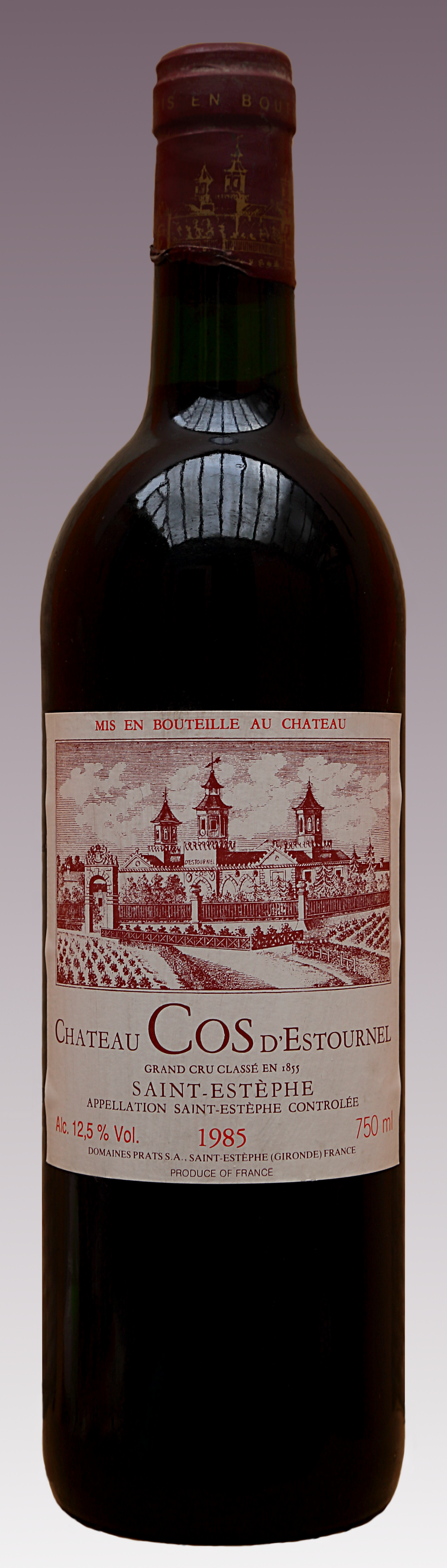 Bottle of Château Cos d'Estournel 1985, picture taken in Belgium.